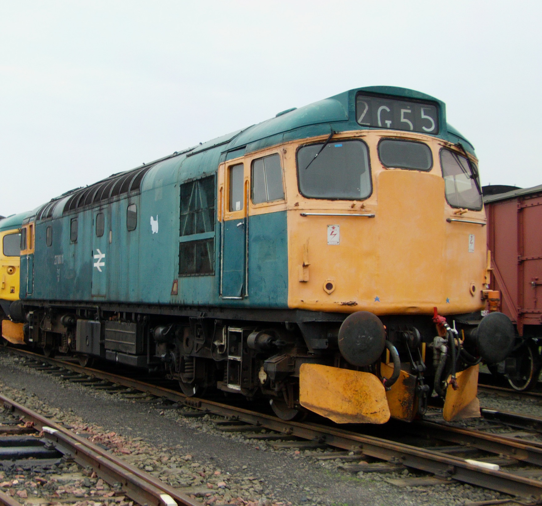 27001 stands in front of the carriage shed at Bo'ness